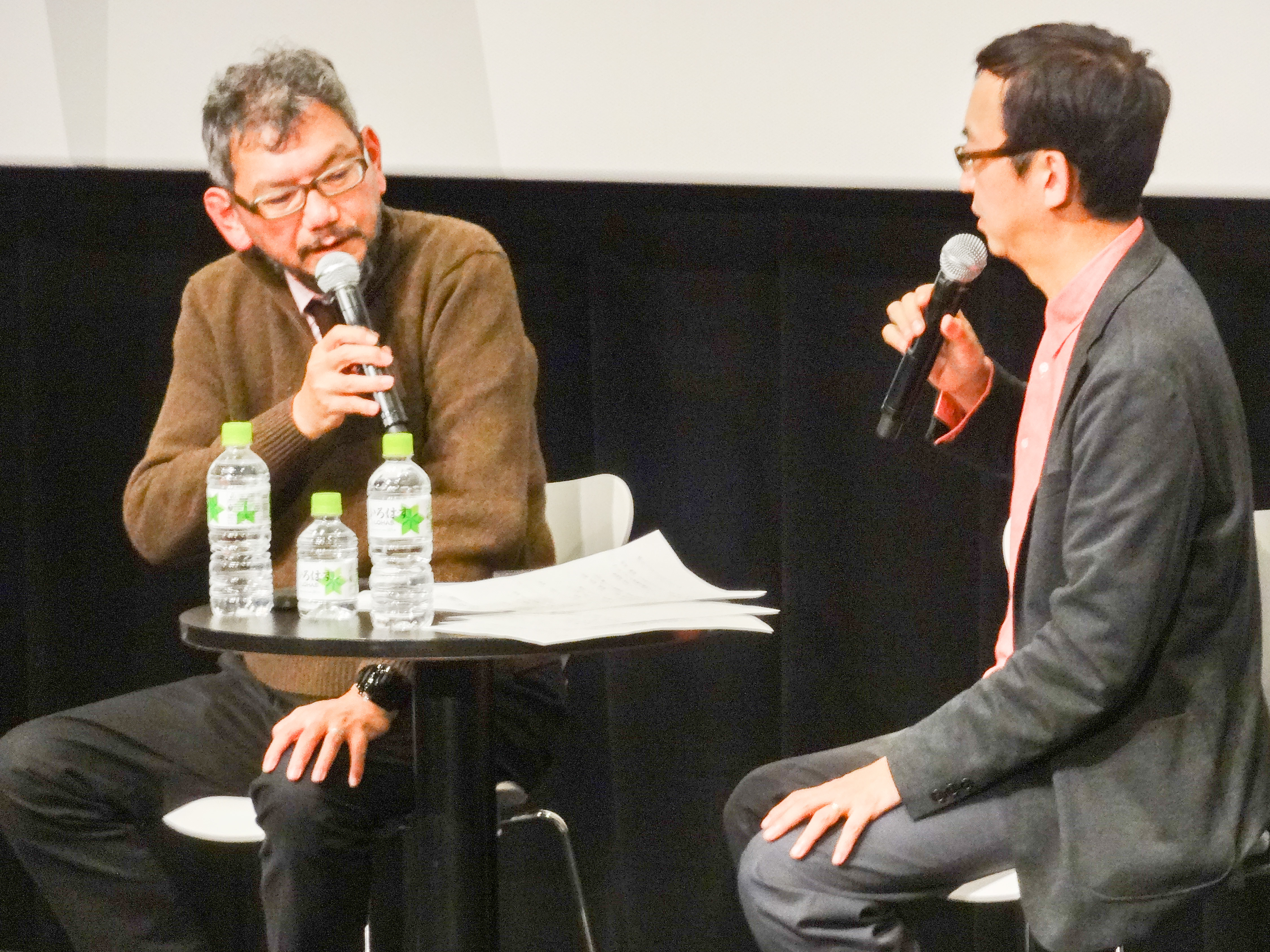 Hideaki Anno, President of the Khara, Inc., and Ryūsuke Hikawa, Visiting Professor of the Graduate School of Global Japanese Studies, Meiji University, participated in "The World of Hideaki Anno", Tokyo International Film Festival, at the TOHO CINEMAS Nihonbashi, Muromachi Furukawa Mitsui Building, in Chūō Ward, Tōkyō Metropolis on October 30, 2014.